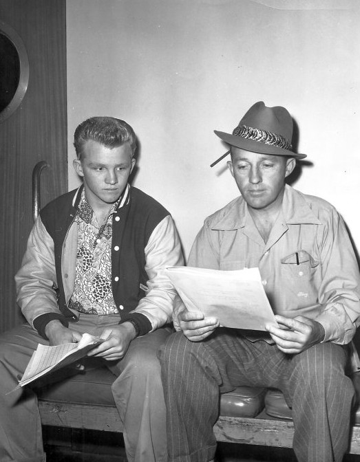 Publicity photo of Bing Crosby and his oldest son, Gary, reading a script from Bing's radio program.